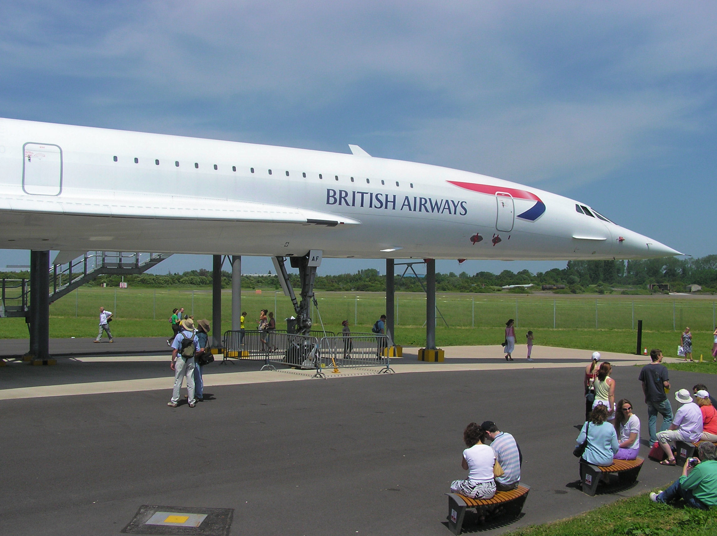 Preserved ex-British Airways Concorde (G-BOAF) at Filton Airfield, Bristol, England. This aircraft first flew on 20th April 1979 and made the last ever landing of a Concorde, at Filton, on 26th November 2003. Its total flight time was 18257 hours. Photographed by Adrian Pingstone in June 2006 and placed in the public domain.